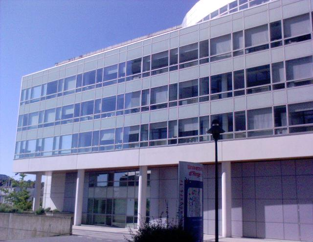 Présidence de l'université d'Angers